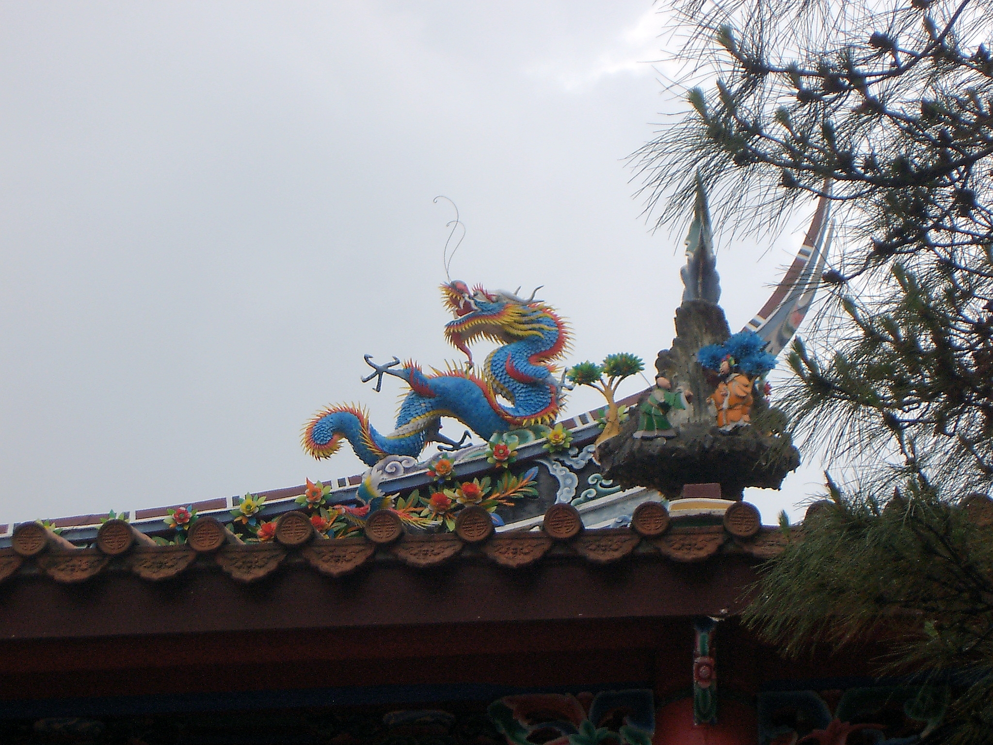 Dragon on top of a temple in Hsinchu.